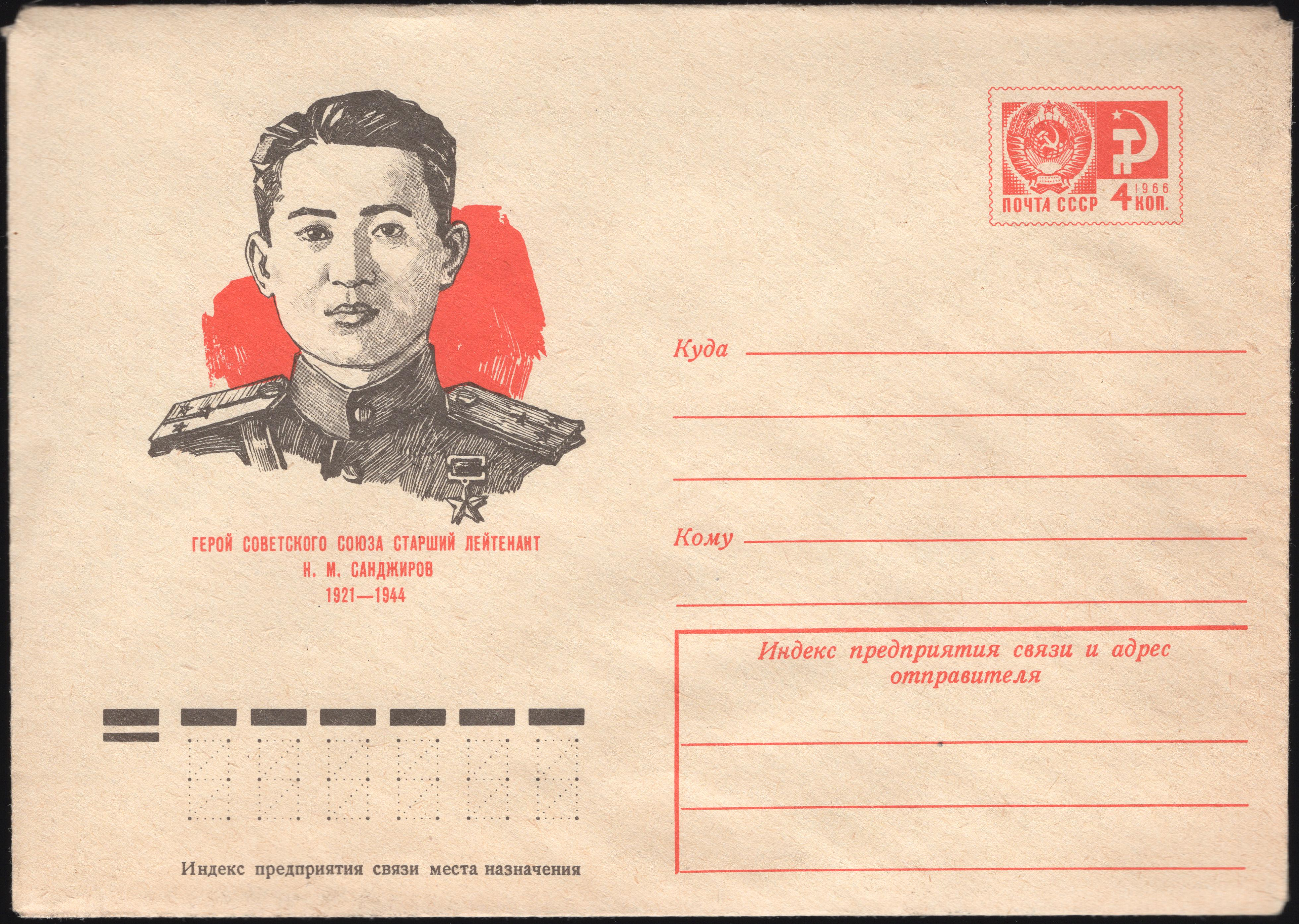 Hero of the Soviet Union senior lieutenant Nikolay Sanjirov. 1921-1944. Series: Heroes of the Soviet Union.